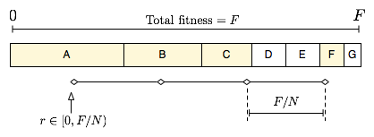 A diagram illustrating the Stochastic Universal Sampling operation. In this illustration 4 individuals are being selected (N=4), resulting in the selection of A, B, C and F.